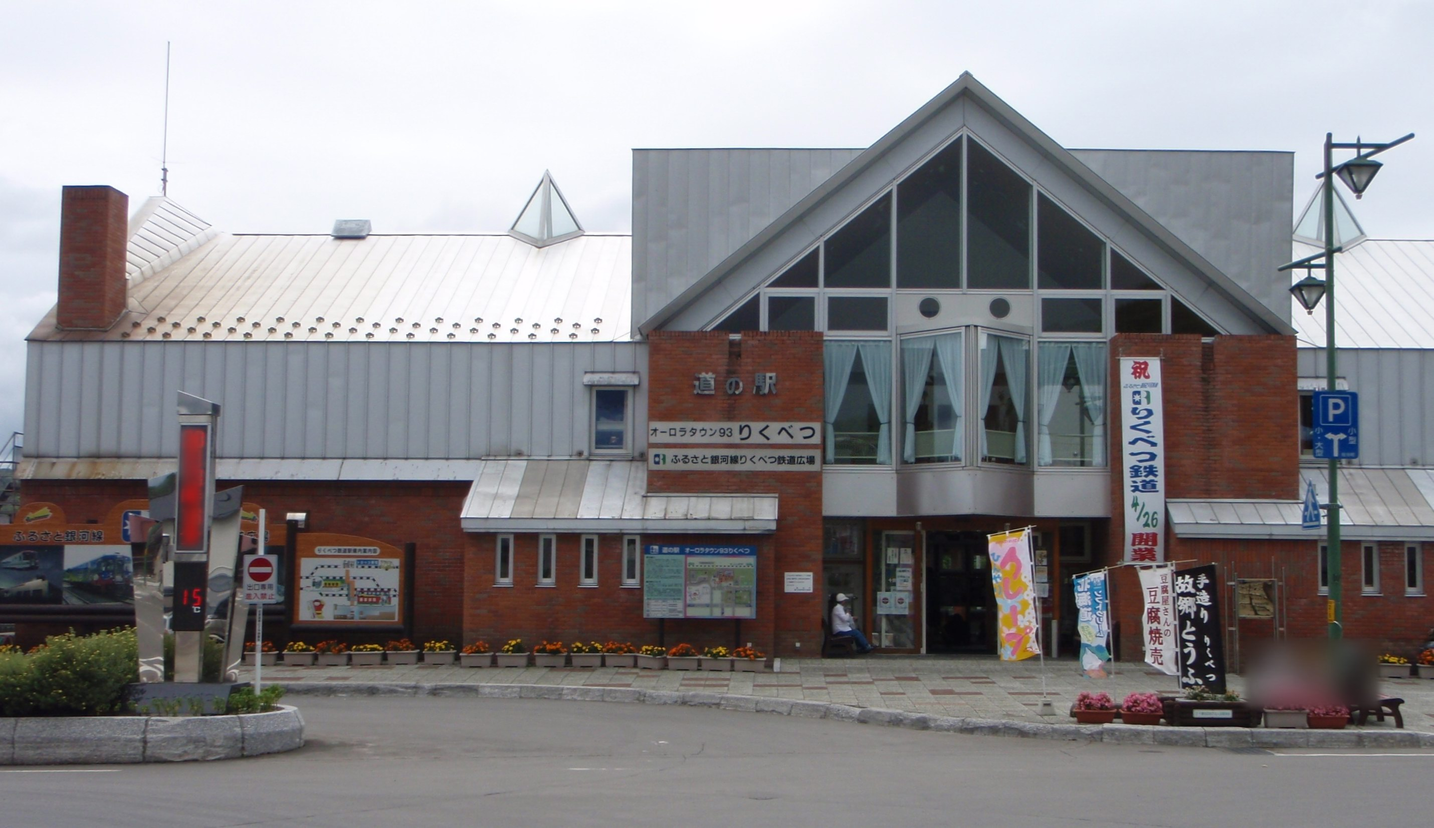 Roadside Station Aurora Town 93 Rikubetsu (formerly Rikubetsu Station on Furusato Ginga Line) in Rikubetsu Town, Hokkaido, Japan